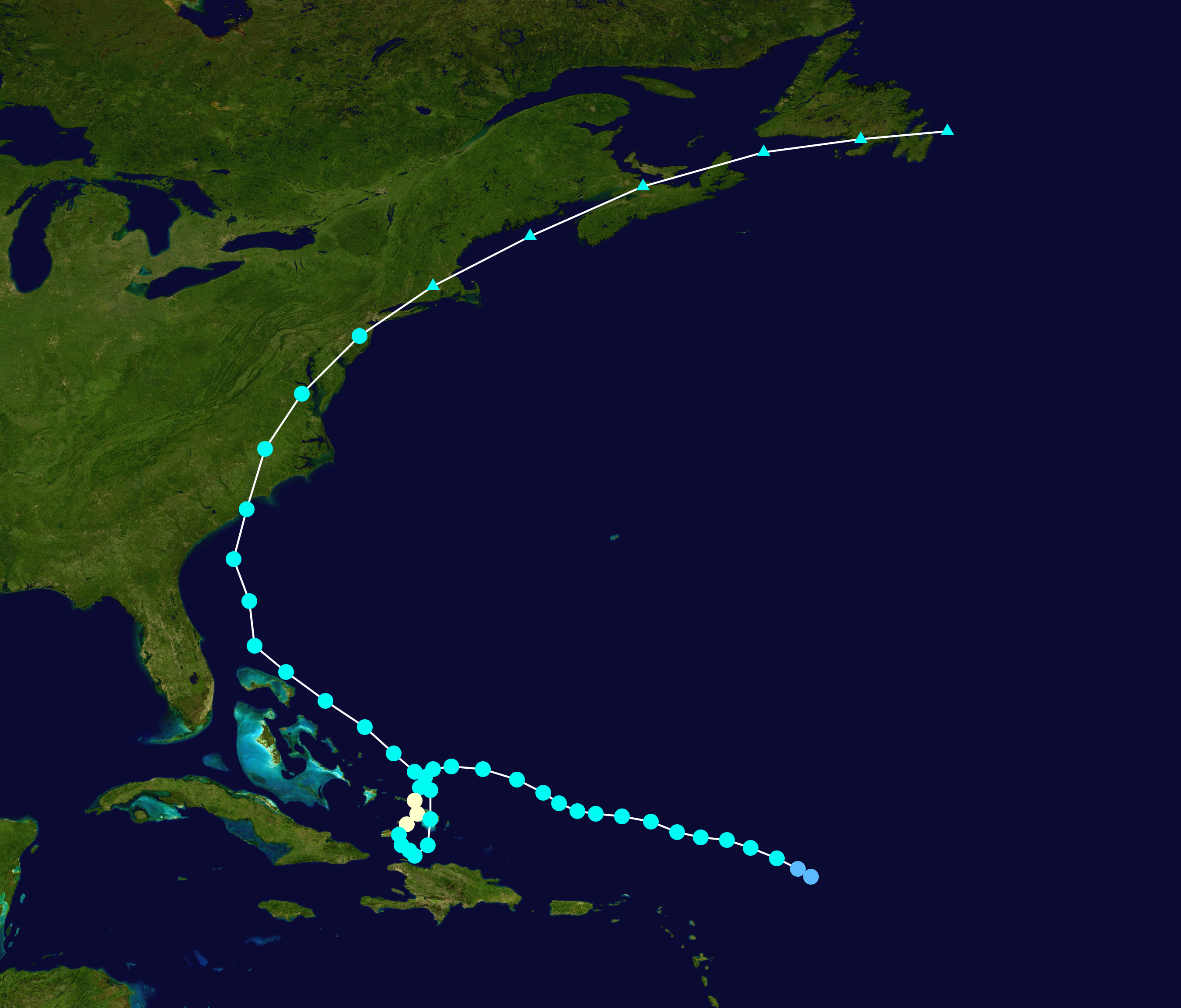 Track map of Hurricane Hanna of the 2008 Atlantic hurricane season. The points show the location of the storm at 6-hour intervals. The colour represents the storm's maximum sustained wind speeds as classified in the Saffir–Simpson scale (see below), and the shape of the data points represent the nature of the storm, according to the legend below. Saffir–Simpson scale Tropical depression≤38 mph≤62 km/h Category 3111–129 mph178–208 km/h Tropical storm39–73 mph63–118 km/h Category 4130–156 mph209–251 km/h Category 174–95 mph119–153 km/h Category 5≥157 mph≥252 km/h Category 296–110 mph154–177 km/h Unknown Storm type Tropical cyclone Subtropical cyclone Extratropical cyclone / Remnant low / Tropical disturbance / Monsoon depression